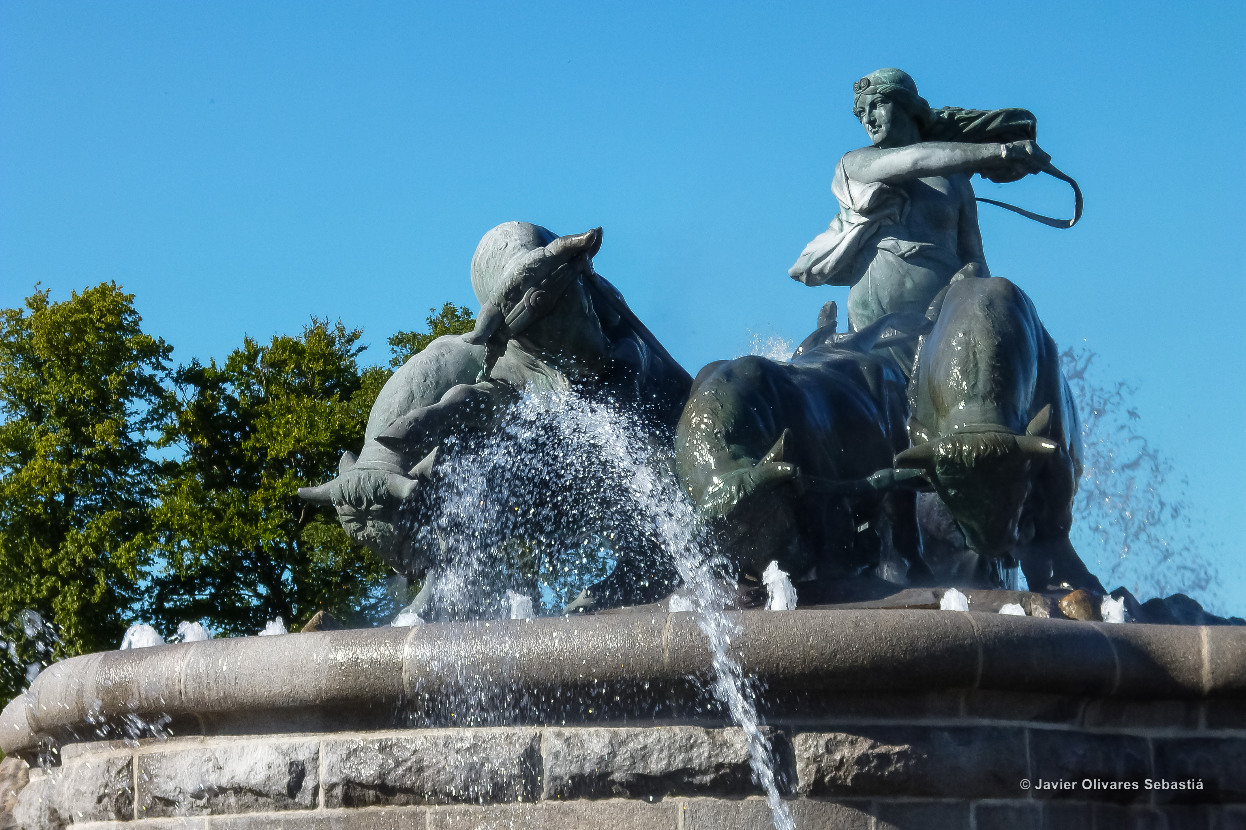 The Gefjun Fountain, Copenhagen, Denmark